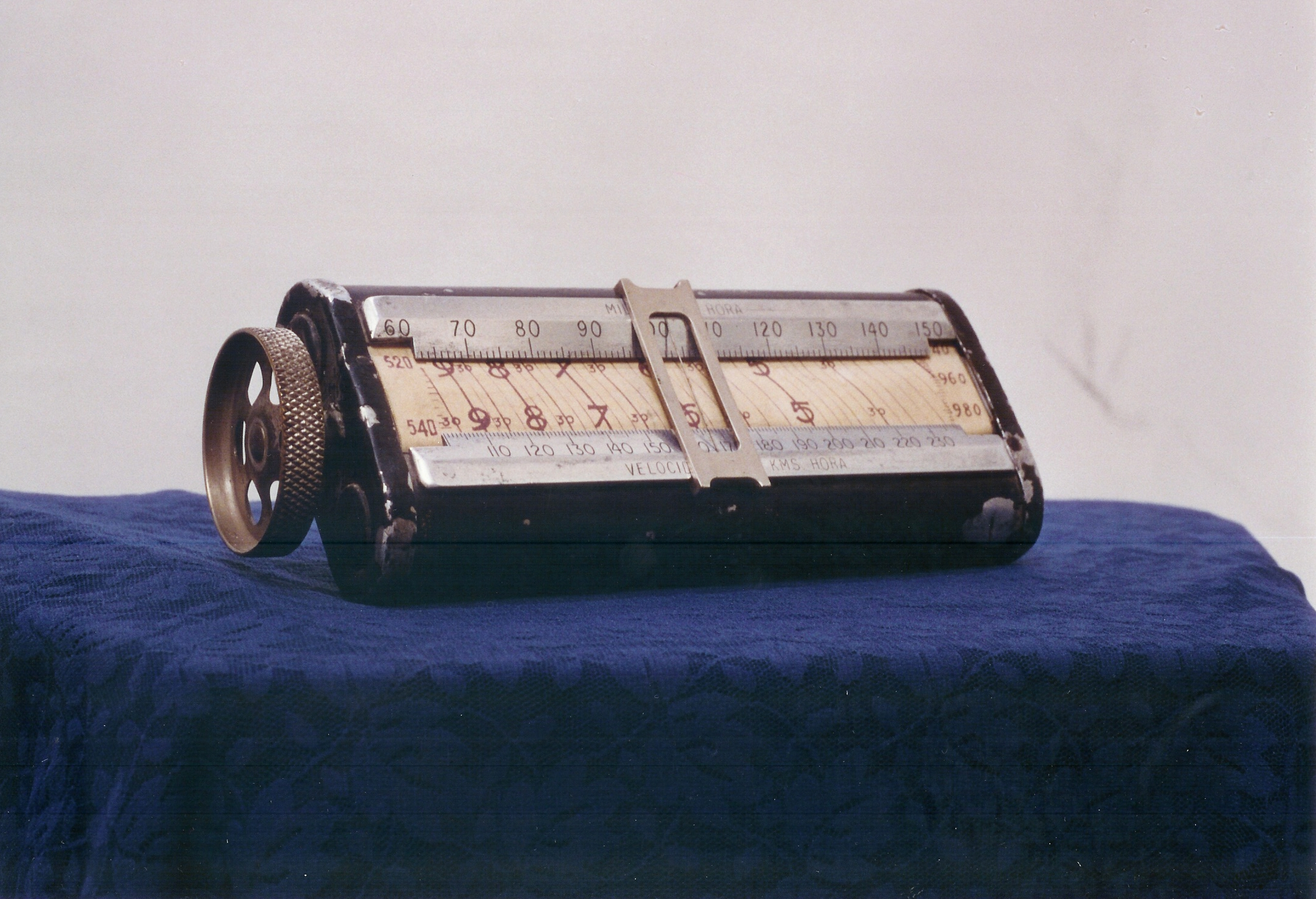 Foto obtenida de álbum familar. Photo took from a own family album.